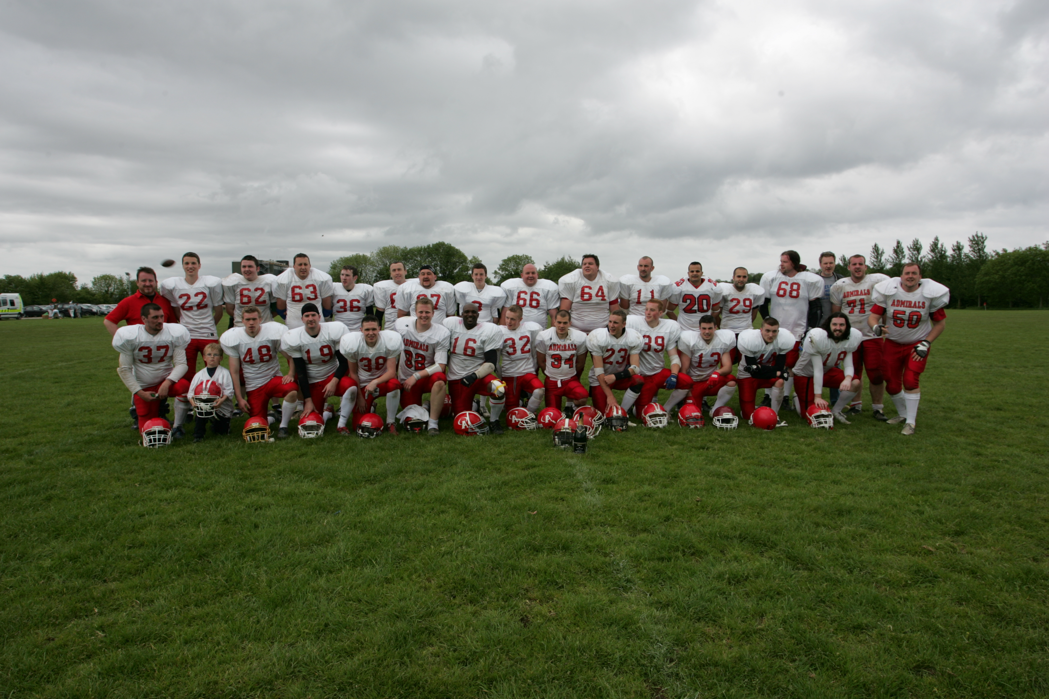 Cork Admirals team 06